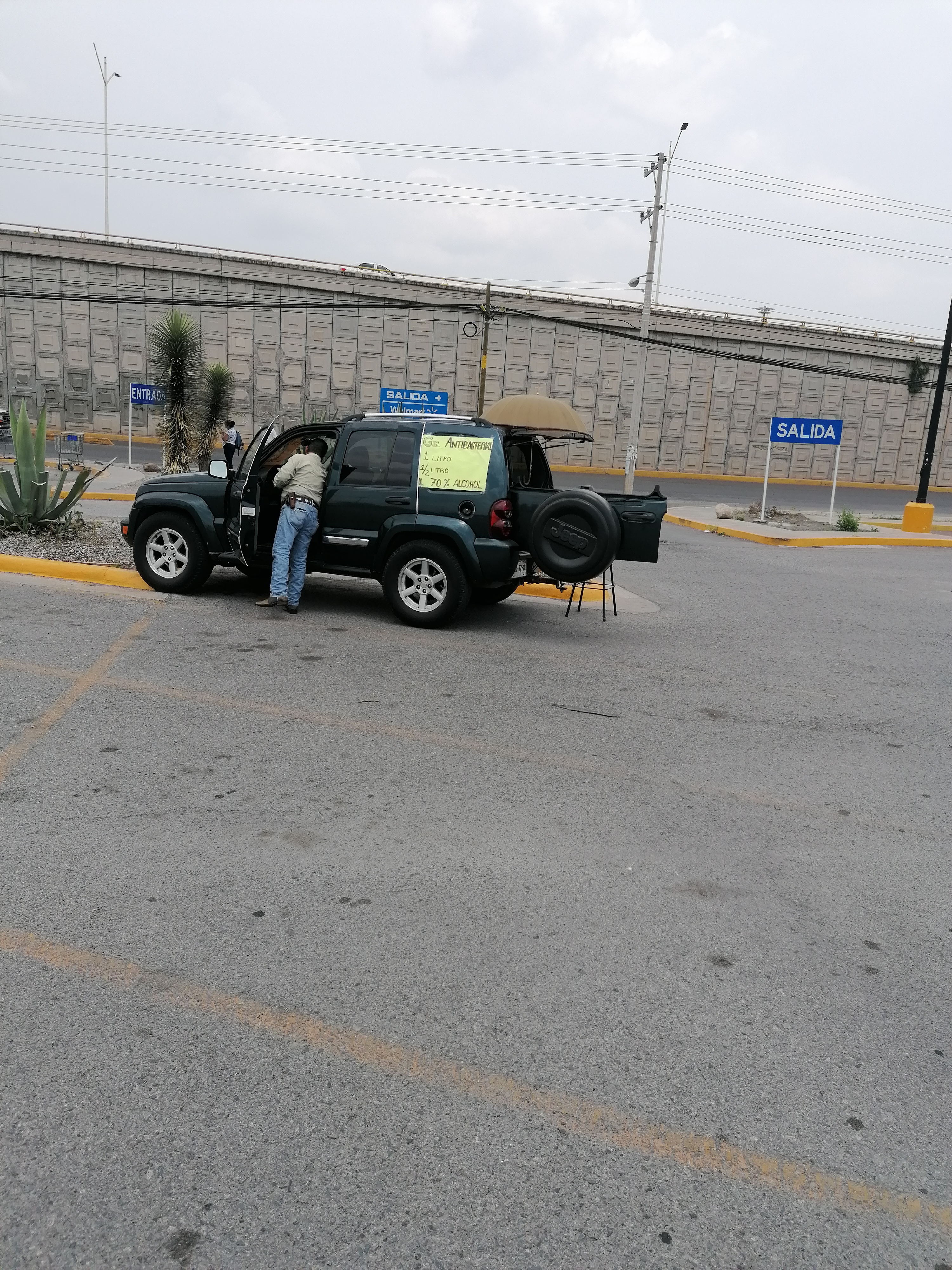 Unofficial mobile seller of hydroalcoholic gel, in the parking lot of a supermarket in San Luis Potosí (San Luis Potosí, Mexico), on 1 April 2020 during the covid-19 pandemic.